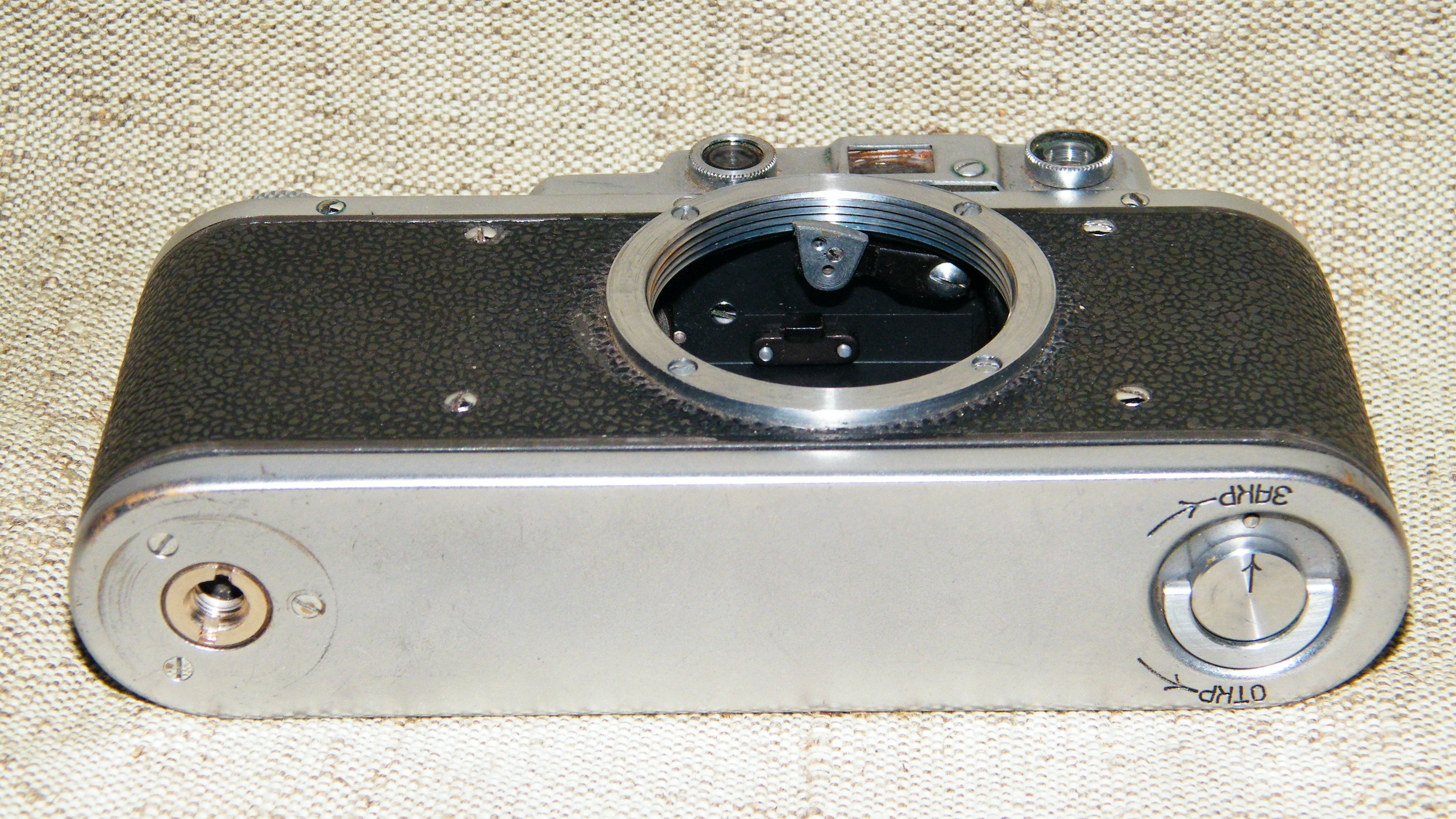 Zorki 1